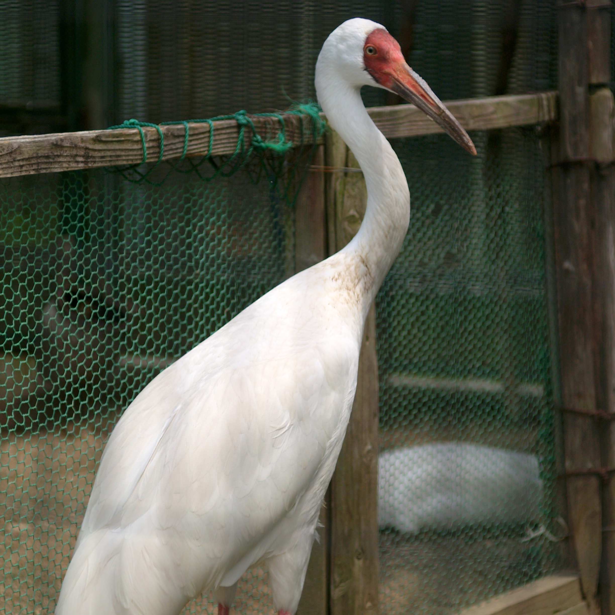 ソデグロヅル Grus leucogeranus Male Siberian Crane Location 天王子動物園 Tennouji Zoo, Osaka, Japan Copyright OpenCage